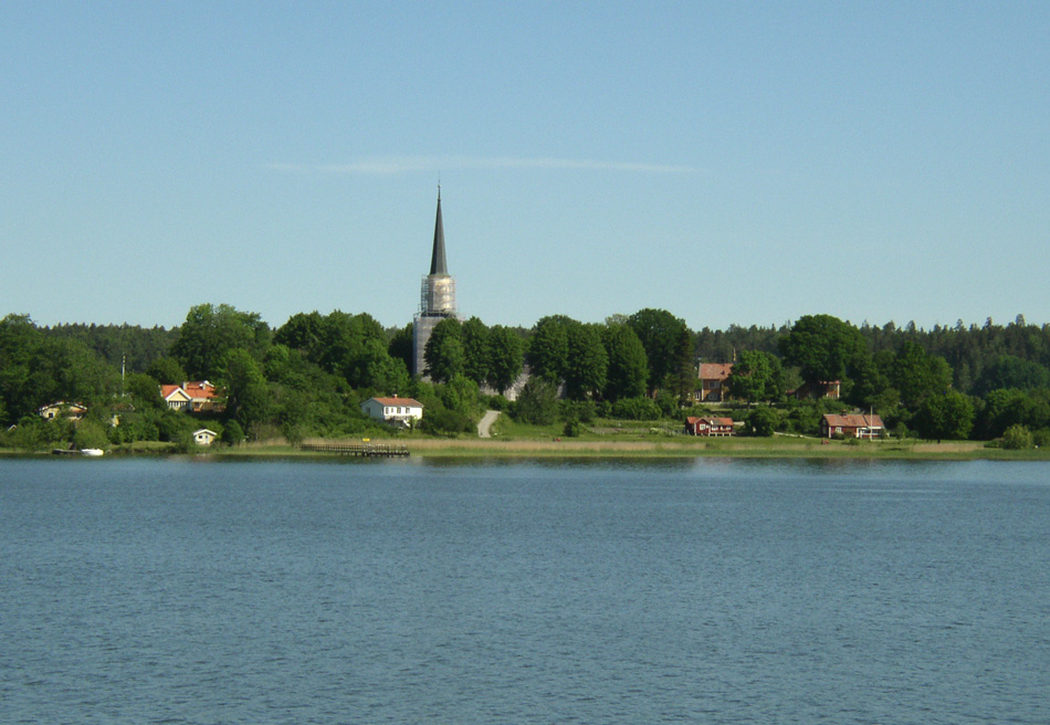 Ekerö church and Asknäs Gård